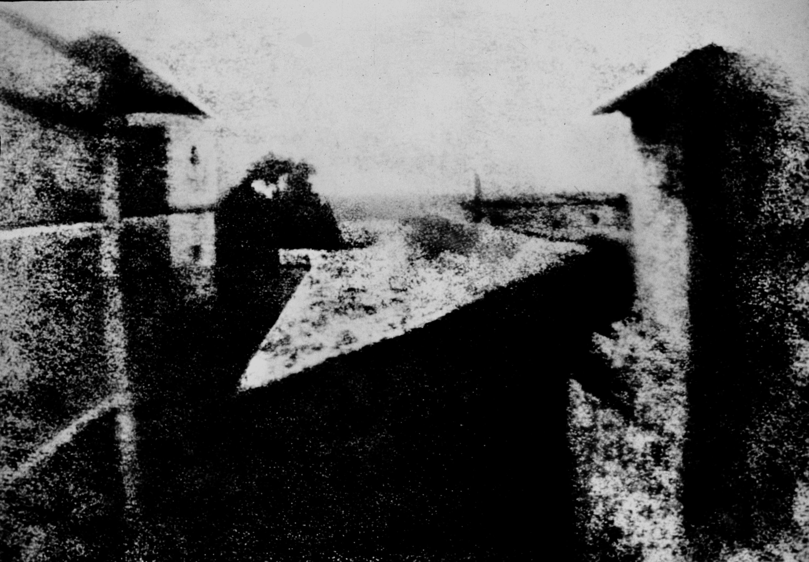 Enhanced version by the Swiss, Helmut Gersheim (1913-1995) performed ca. 1952 of Niépce's View from the Window at Le Gras, (Harry Ransom Humanities Research Center, University of Texas, Austin) the first successful permanent photograph created by Nicéphore Niépce in 1826 or 1827, in Saint-Loup-de-Varennes. Captured on 20 × 25 cm oil-treated bitumen. Due to the 8-hour exposure, the buildings are illuminated by the sun from both right and left.